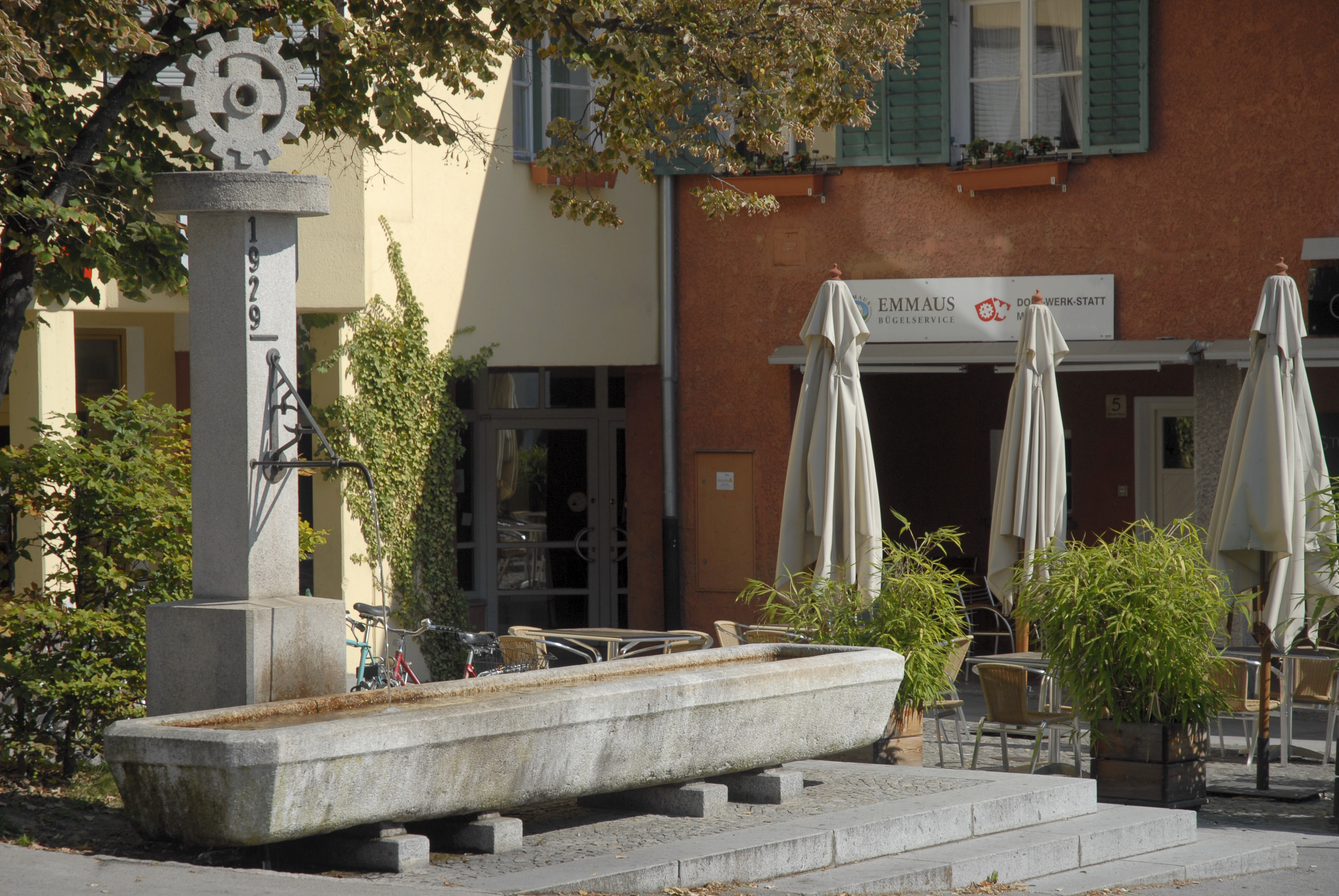 Innsbruck Mühlau, Brunnen am Hauptplatz This media shows the remarkable cultural object in the Austrian state of Tyrol listed by the Tyrolean Art Cadastre with the ID 115959. (on tirisMaps, pdf, more images on Commons, Wikidata)